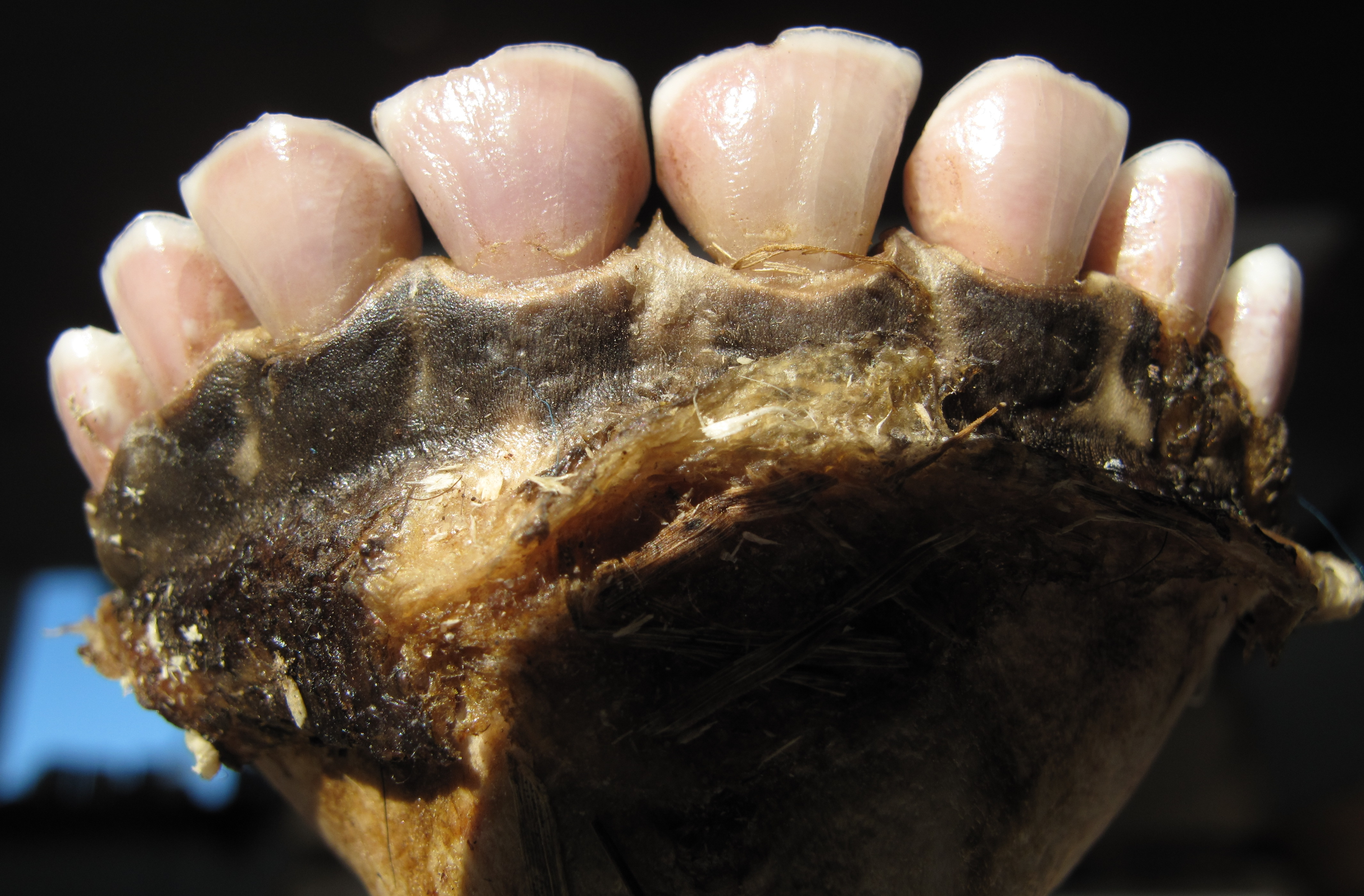 Veal's incisors.